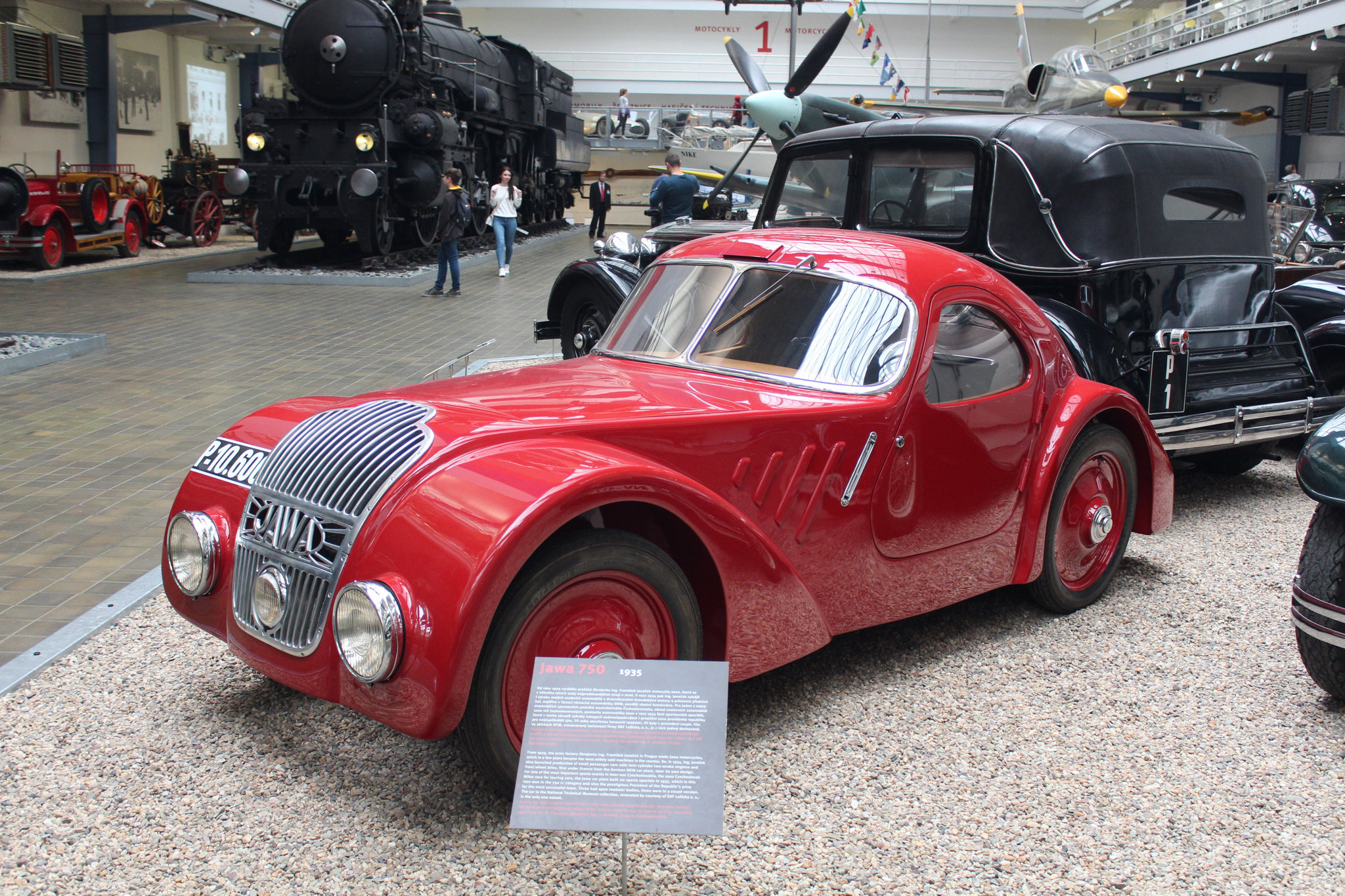 This image has been originally created as the illustration for Çek motosiklet entry in crosswords dictionary . It has been released under CC-BY-3.0 license.